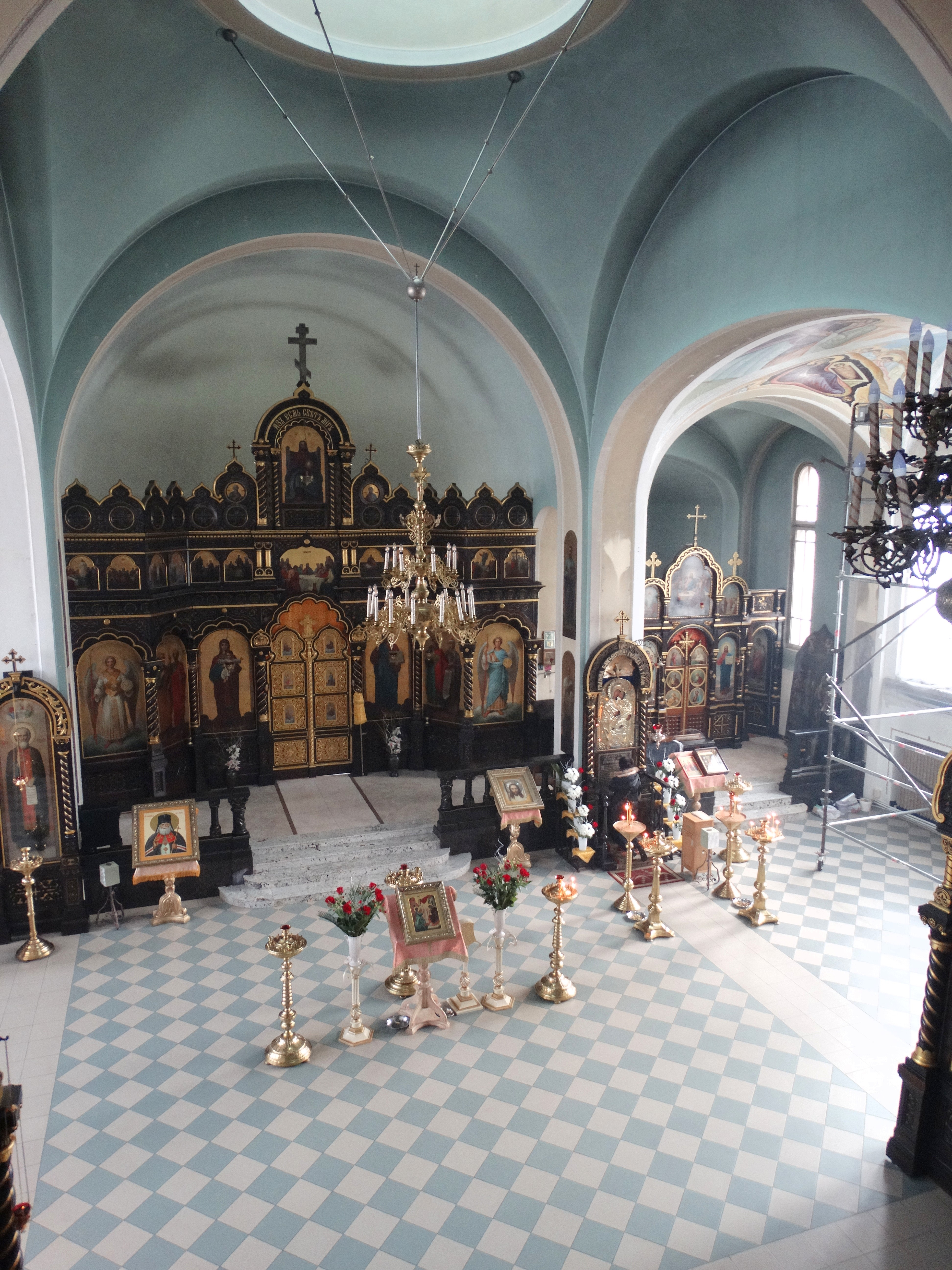 Orthodox church of the Annunciation, Kaunas, Lithuania